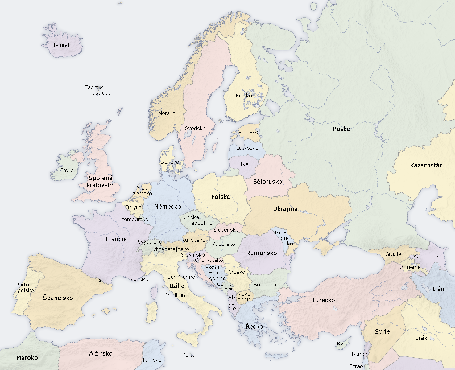 Map of countries in Europe